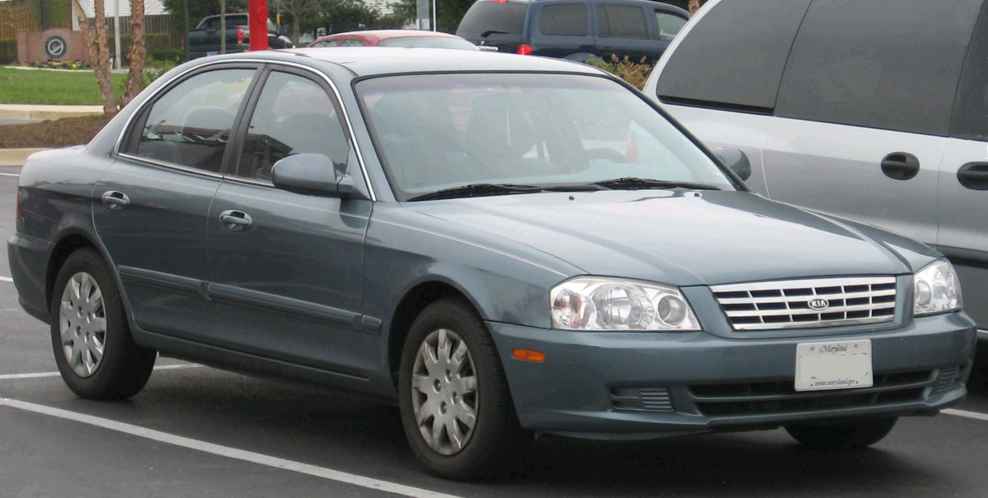 2001-2002 Kia Optima photographed in USA.